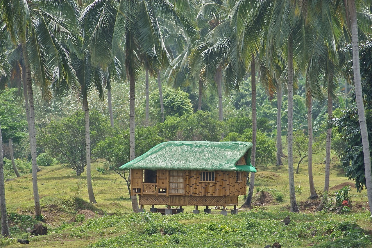 Nipa Hut, photo taken near Balanac River in Barangay Ibabang Atingay, Municipality of Magdalena, Laguna, Philippines in April 2011.